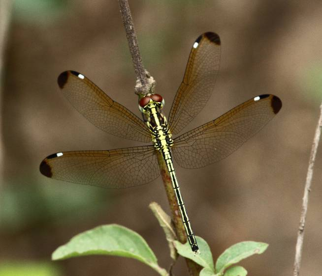 Female African Piedspot, Hemistigma albipunctum at Ngwenya Resort, Mpumalanga, South Africa. OdonataMAP record no. 1919